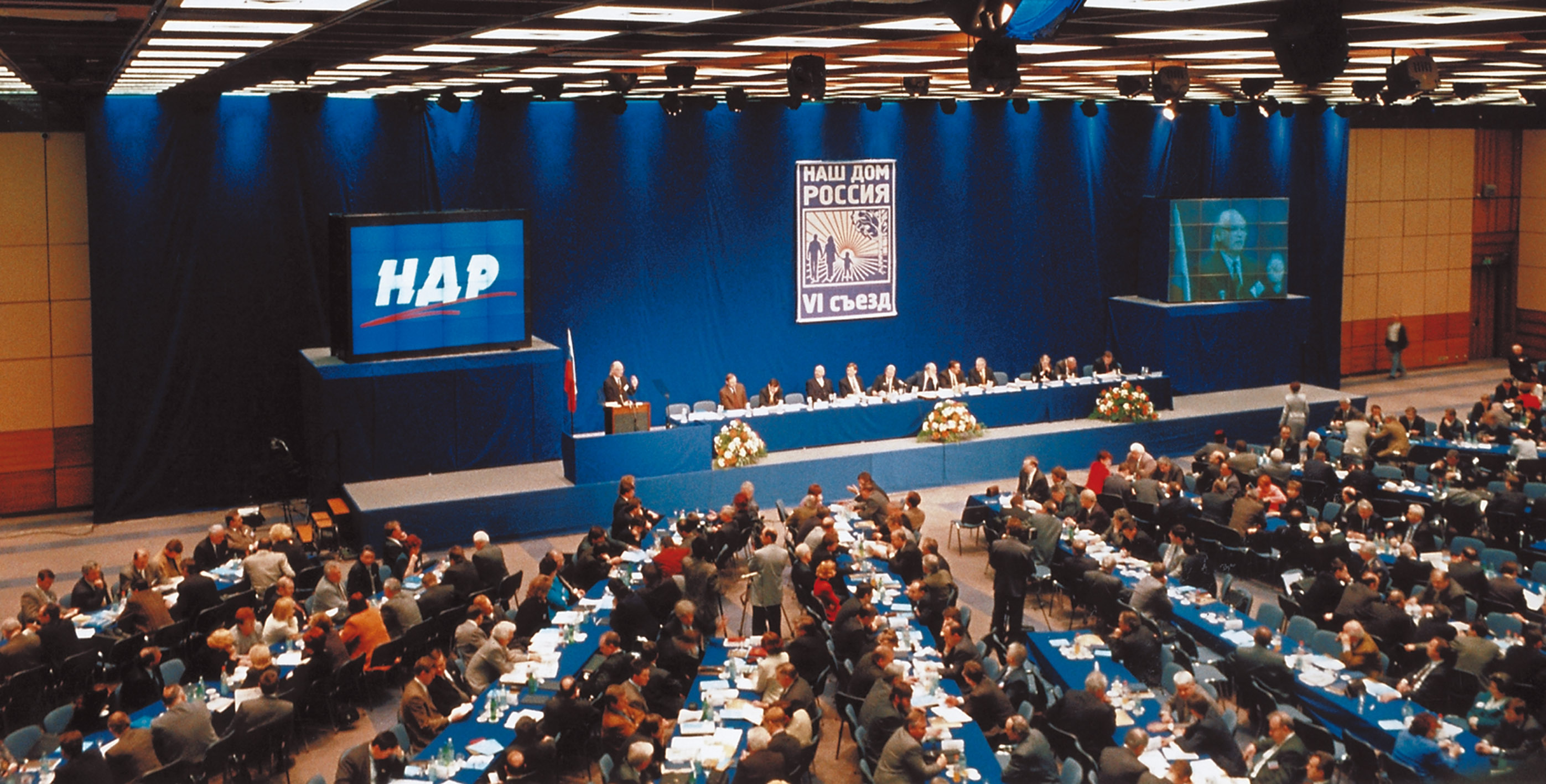 24 апреля 1999 г. VI съезд НДР. Председателем НДР вновь был избран В. С. Черномырдин.